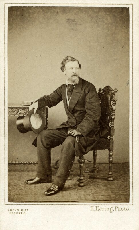 Edward Akroyd (1810-1887), Industrialist, philanthropist and politician